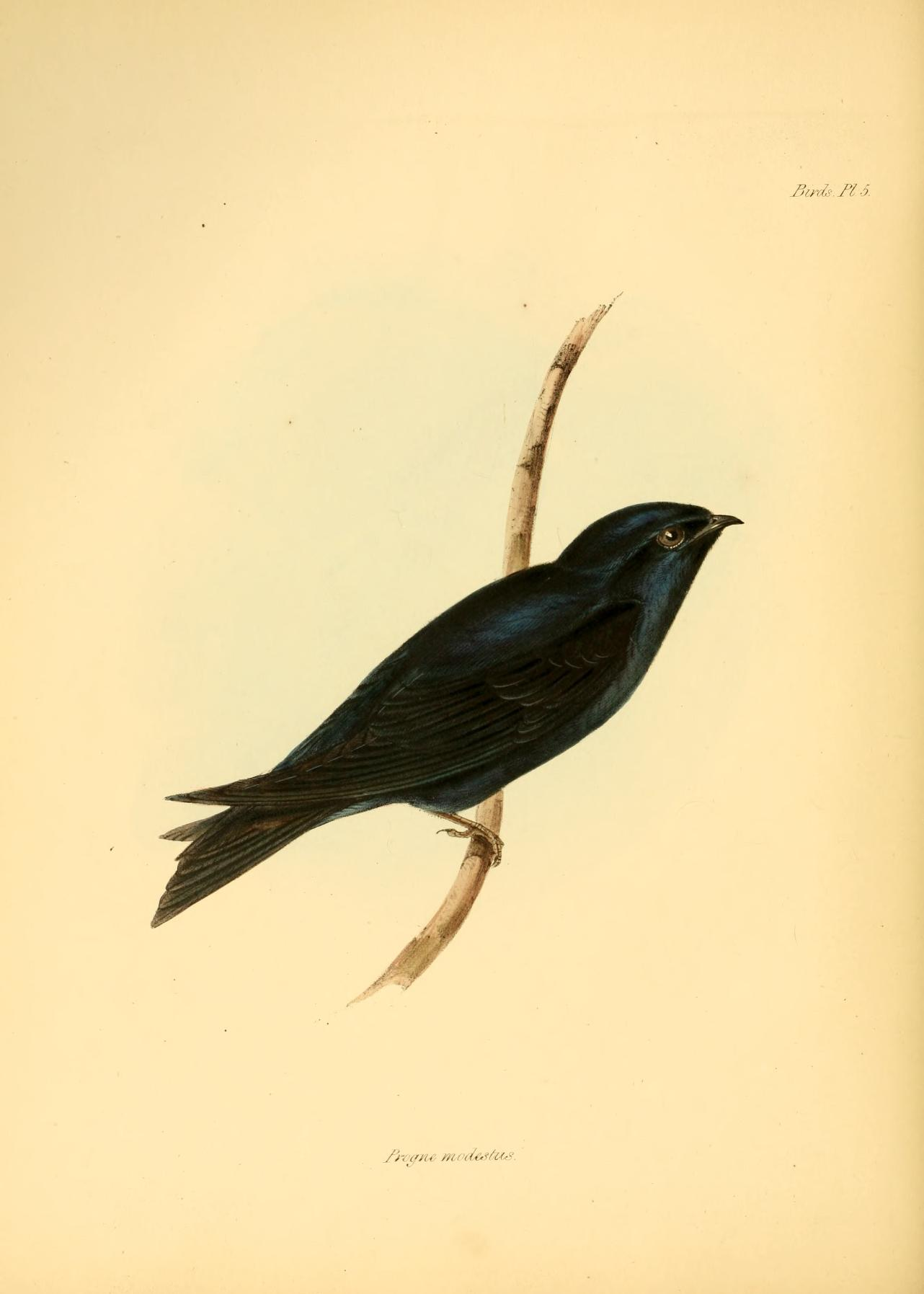 Progne modesta